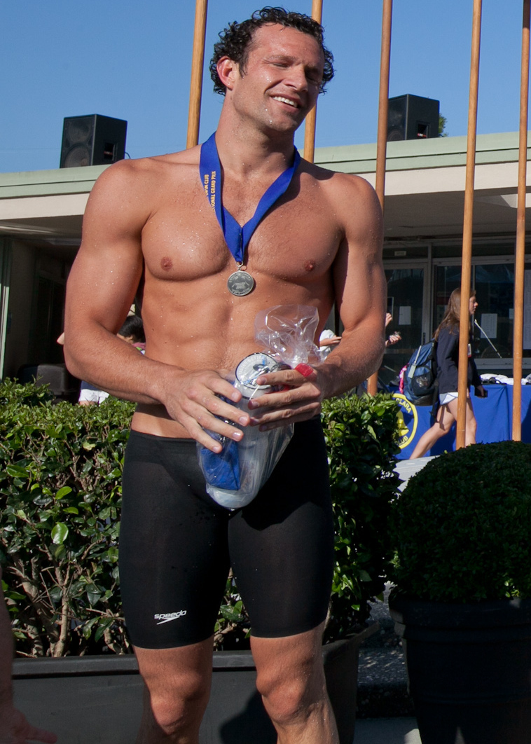 Eric Shanteau, Brendan Hansen and Scott Dickens finished 1-2-3 in the men's 200 meter breaststroke at the 2001 Santa Clara Invitational. Contact JD Lasica for re-publication rights at .